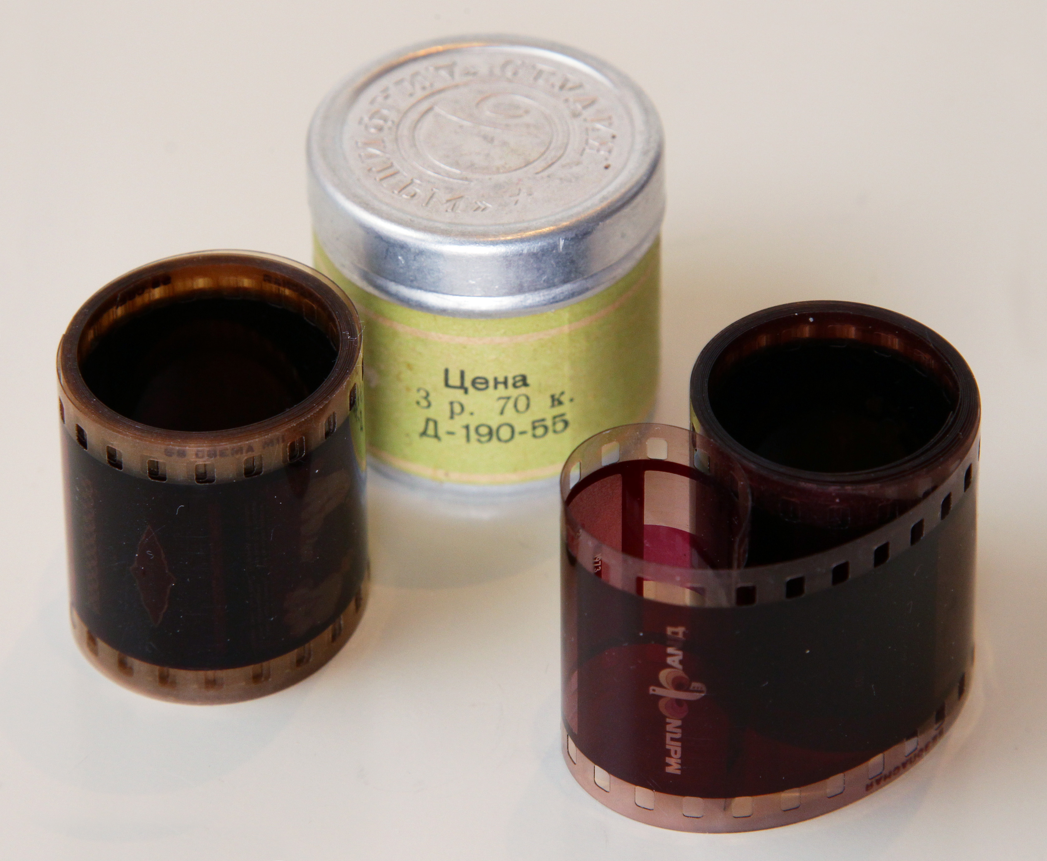 35-mm film strip with children's slide show